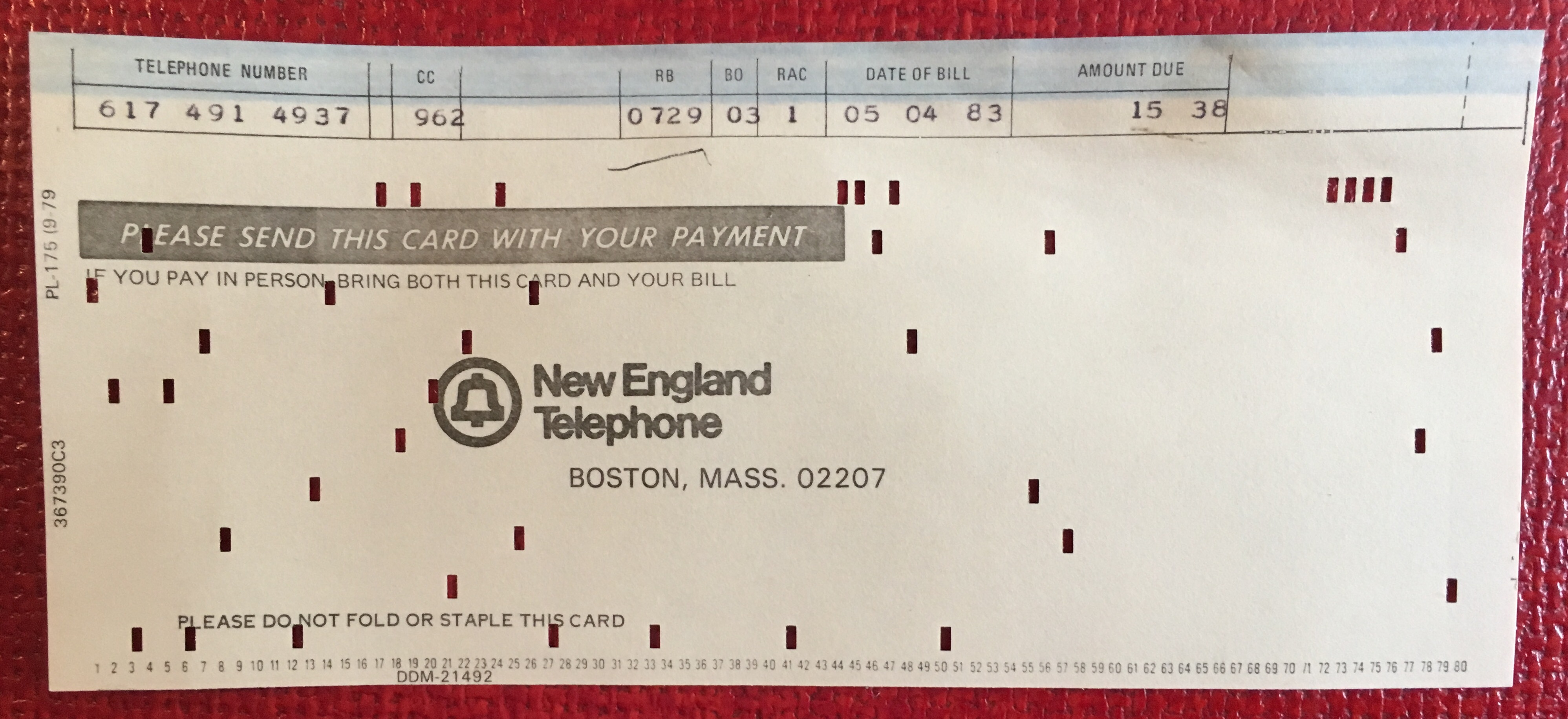 Punched card included as part of a New England Telephone Company bill in 1983. Card is marked "Please send this card with your payment" and "Please do not fold or staple this card". (Phone number displayed was author/uploader's number at the time.)